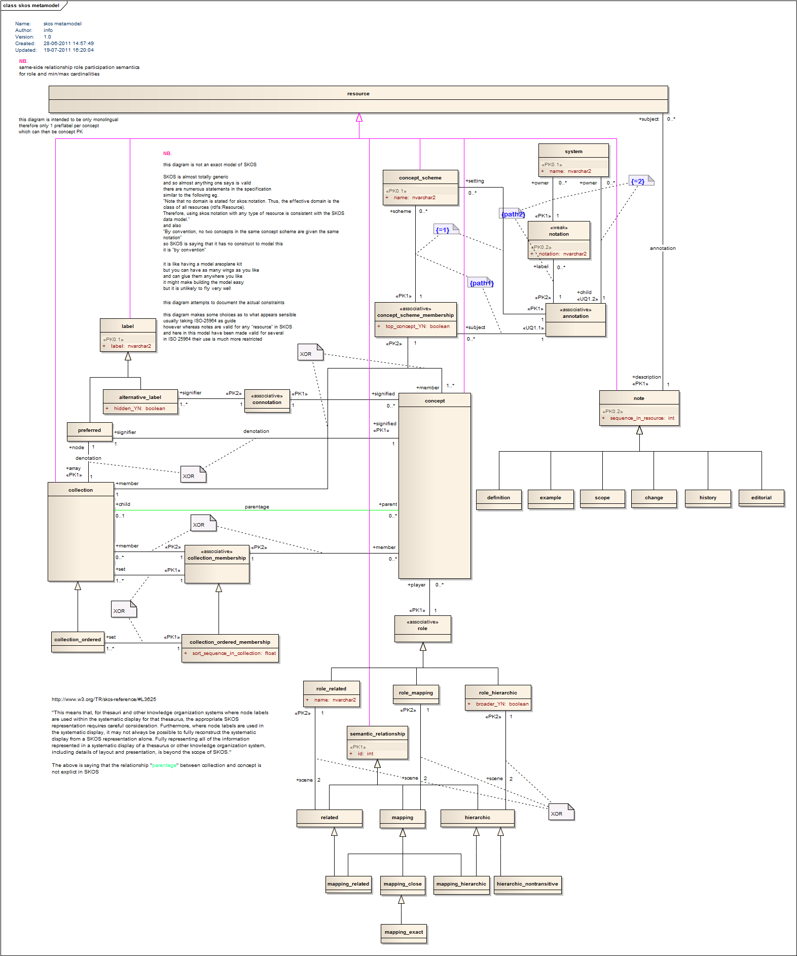 An ER metamodel (in UML) of the SKOS specification cannot be taken as accurate the SKOS spec is an all-things-to-all-men spec worthless